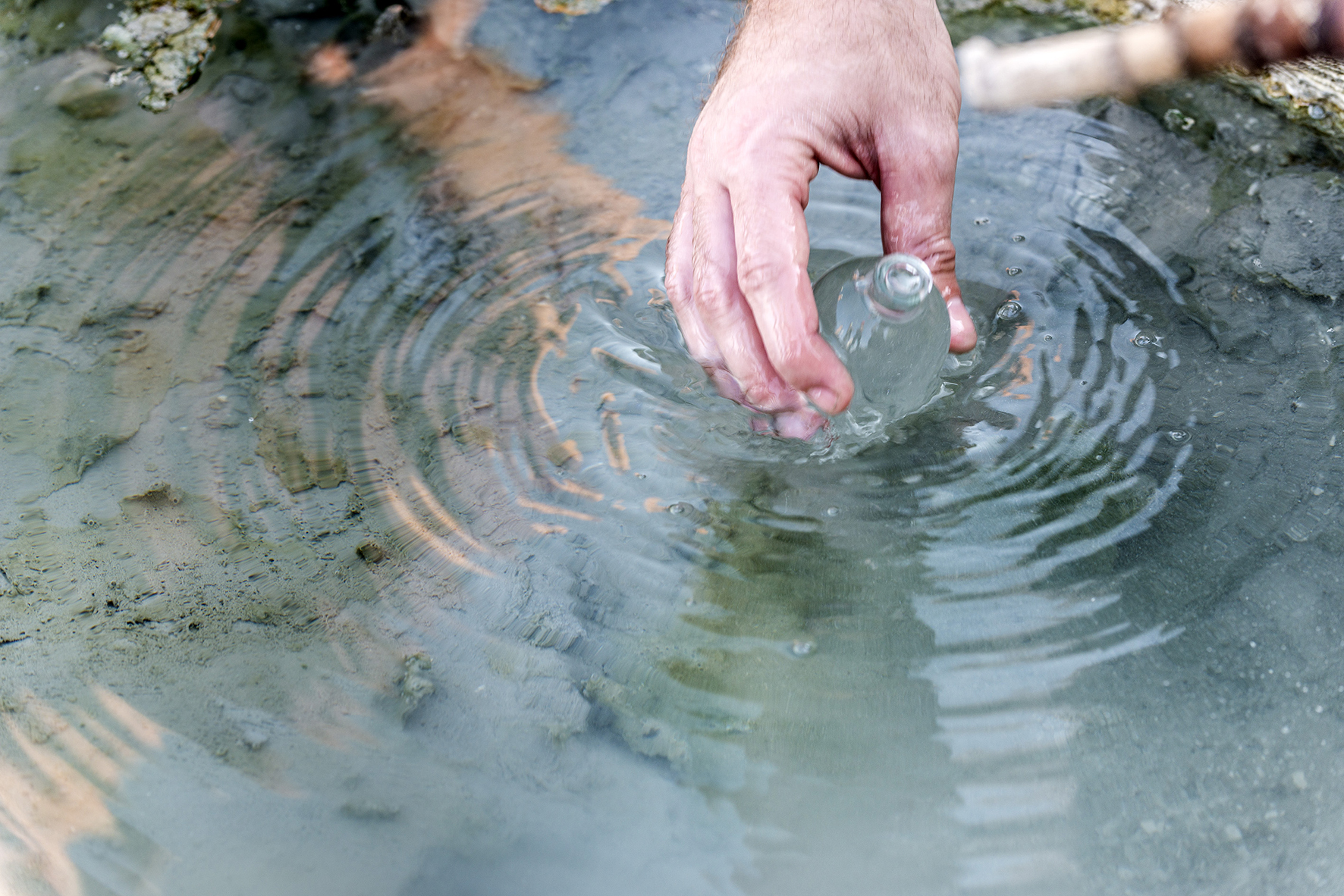 Beschreibung: Dead Sea, Totes Meer